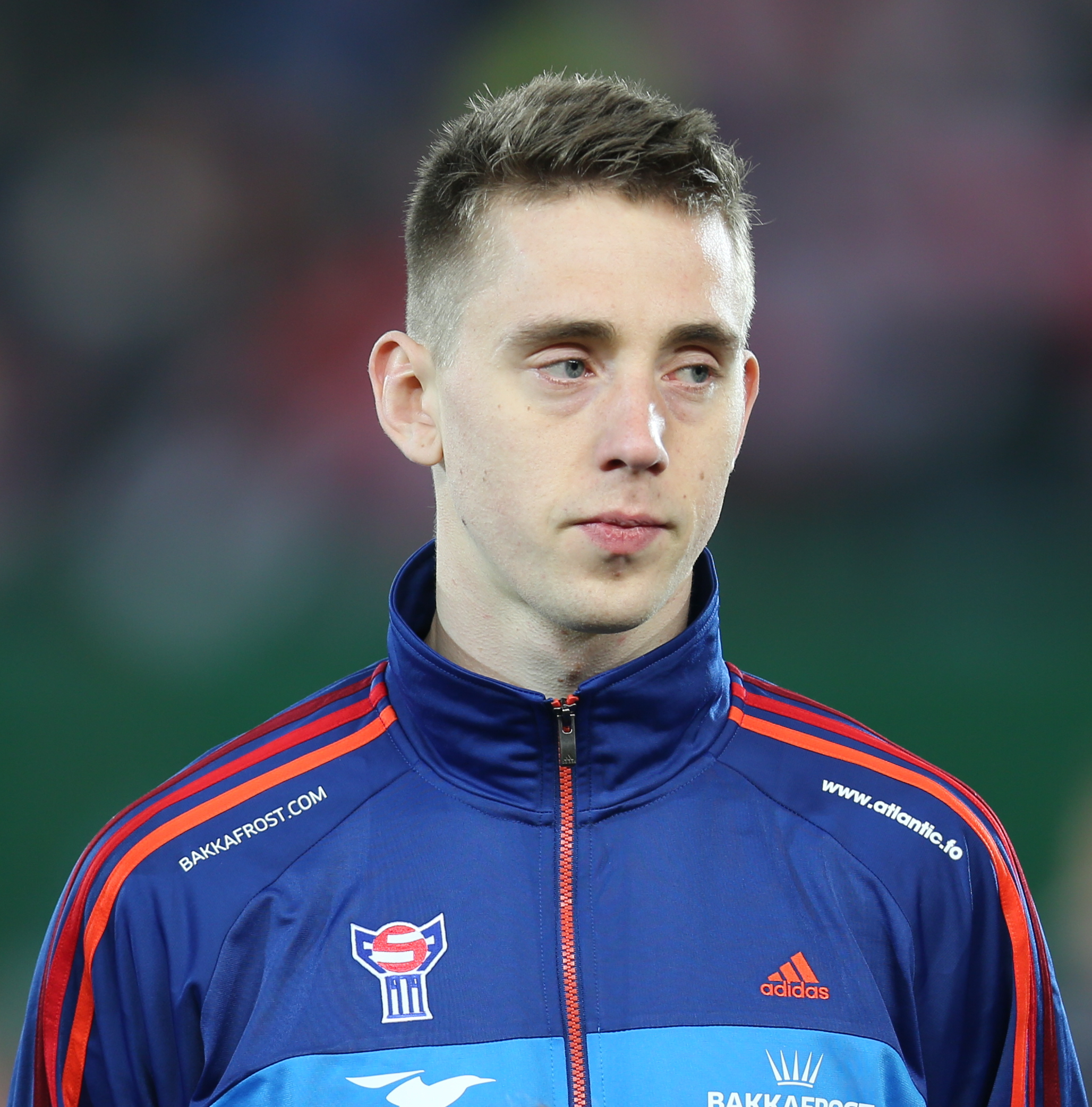 2014 FIFA World Cup qualification (UEFA), Group C: Austrian national football team vs. Faroer Islands national football team (6:0) at 22. March 2013 in the Ernst-Happel-Stadion in Vienna. Here: Pól Jóhannus Justinussen, defender of the Faroe Islands.